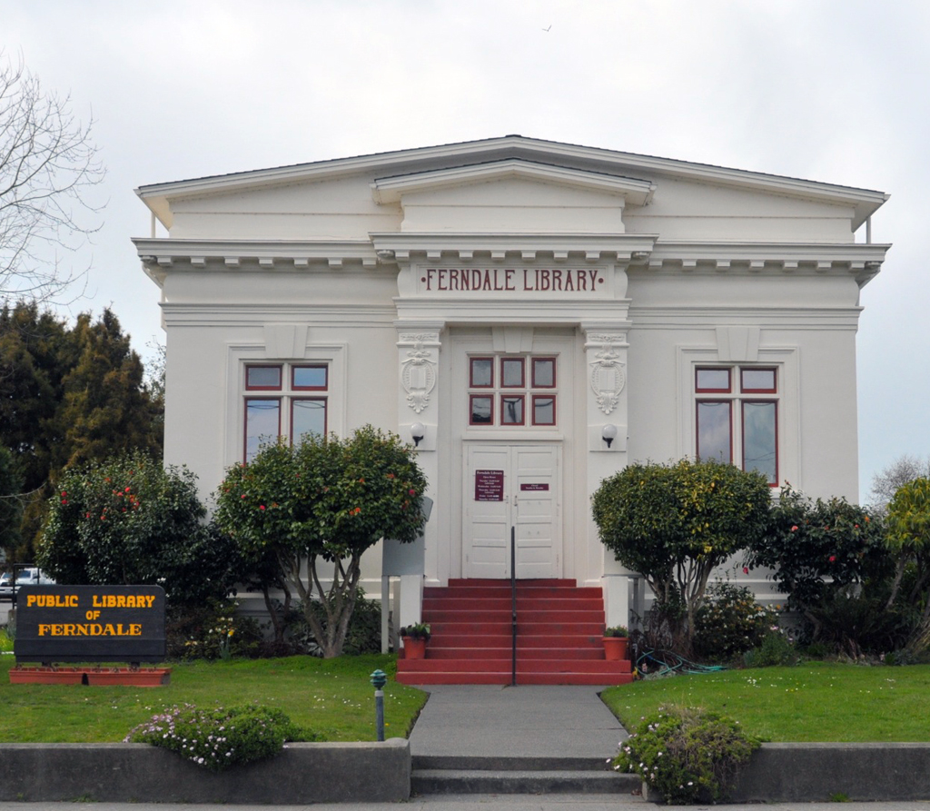 1910 Classical Revival Carnegie Library, Warren Skellings (architect) on Main Street, in Ferndale, California. View facing west at facade of building.